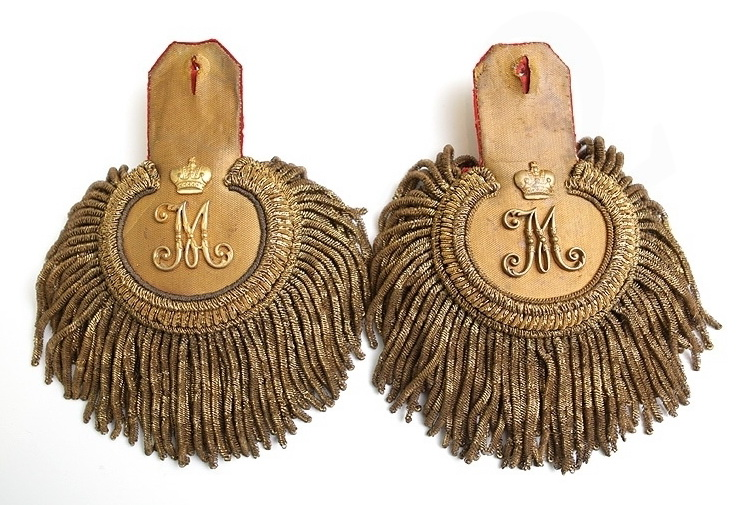 The colonel's epaulettes. Mikhailovskoye artillery school (Saint-Petersburg, Russia)